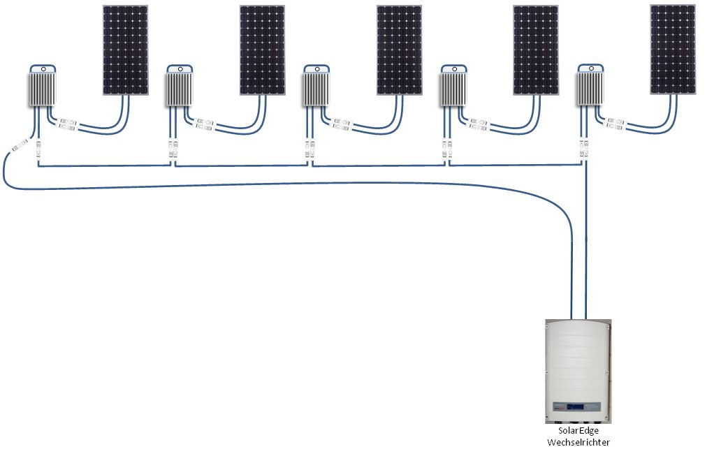 SolarEdge power optimizers Wiring Example with a SolarEdge-Inverter.